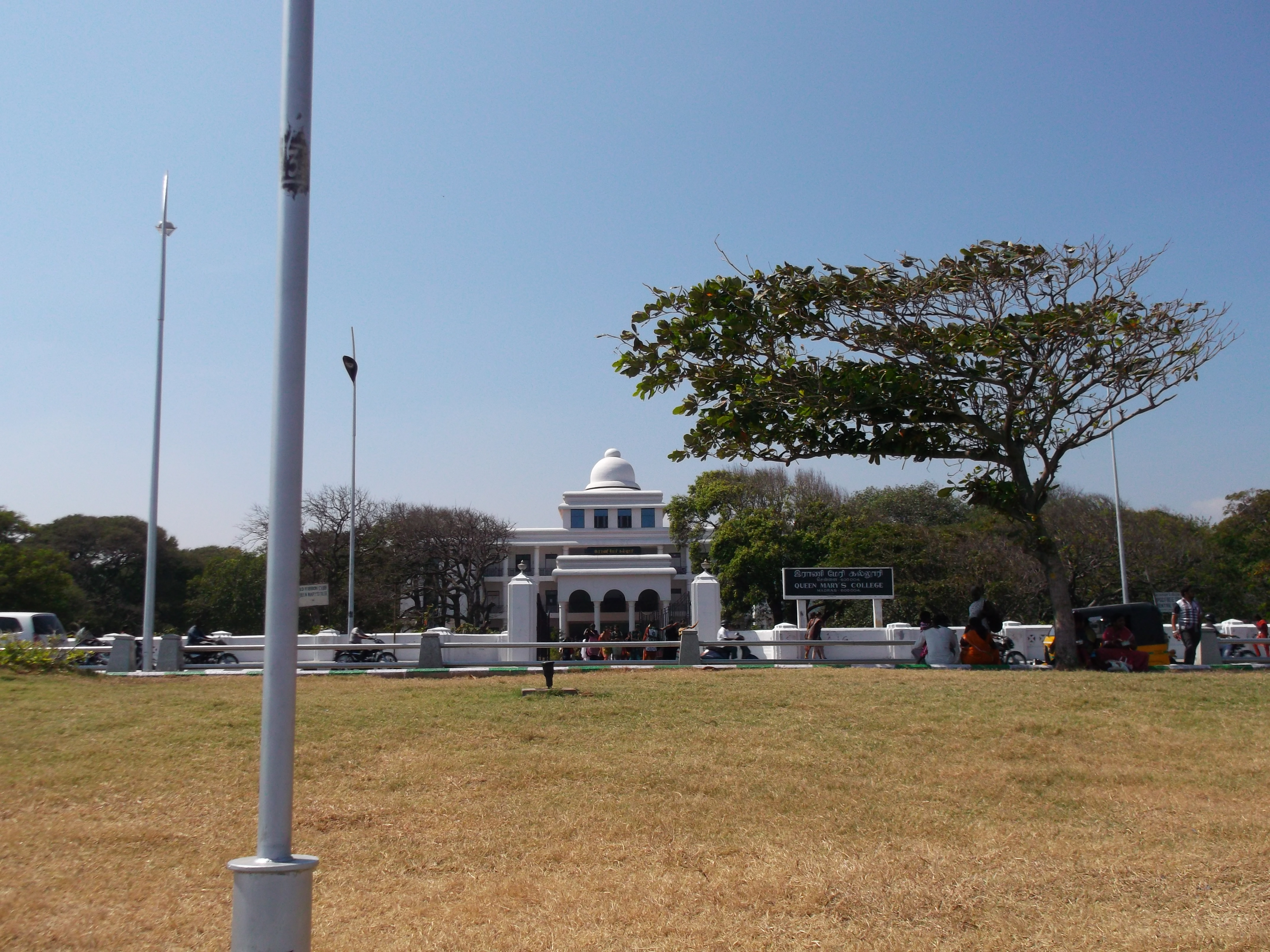 Queen Mary's College, Chennai, taken on 2-Feb-2013 afternoon